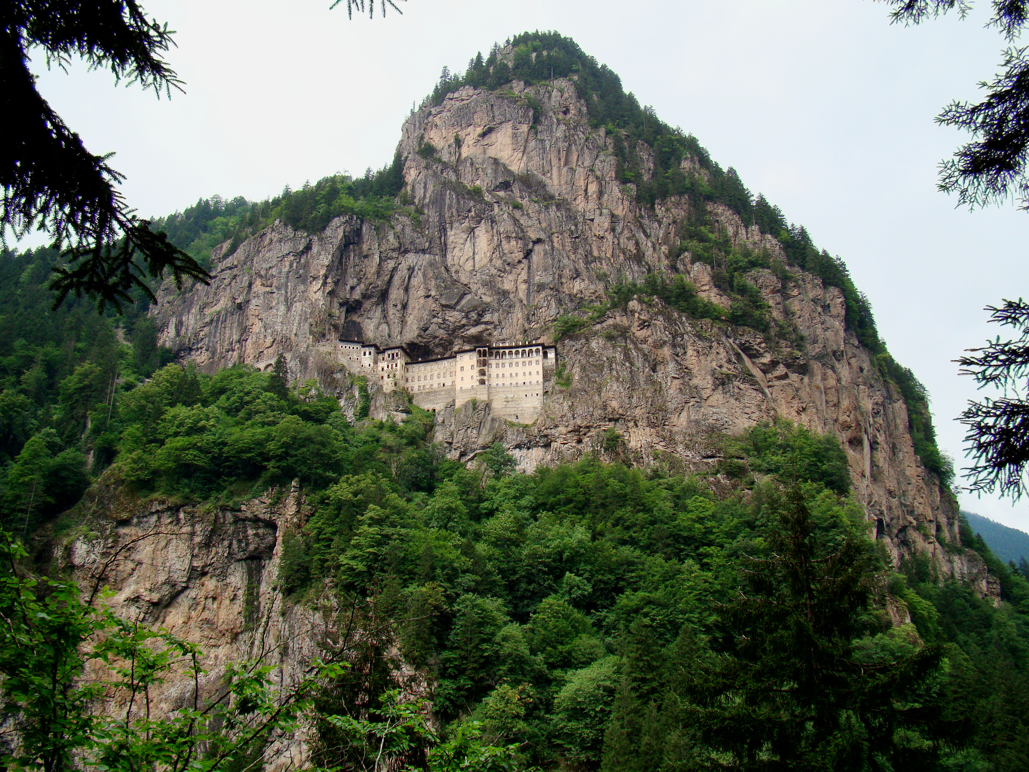 This photo shows the fairly dramatic location of Sümela Monastery, on a ledge in a steep cliff.